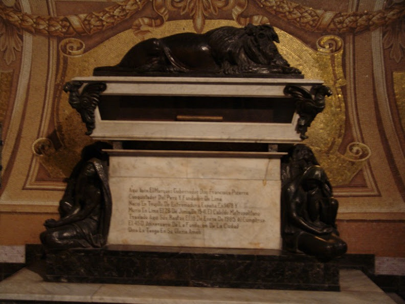 франциско писсаро (гробница Франциско Писсаро в Лиме)